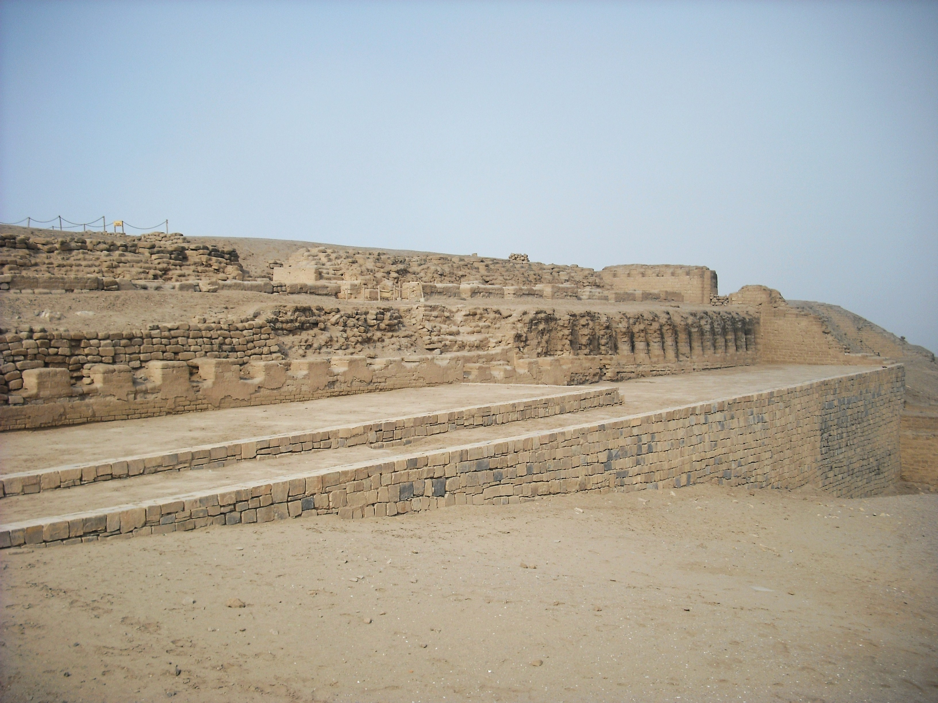 Pachacamac archeological site, Temple of the Sun, front side, facing the sea